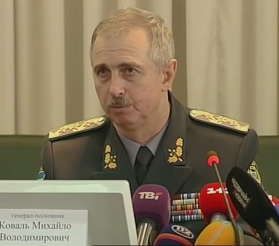 Mykhailo Koval, Ukrainian general, acting Minister of Defense of Ukraine